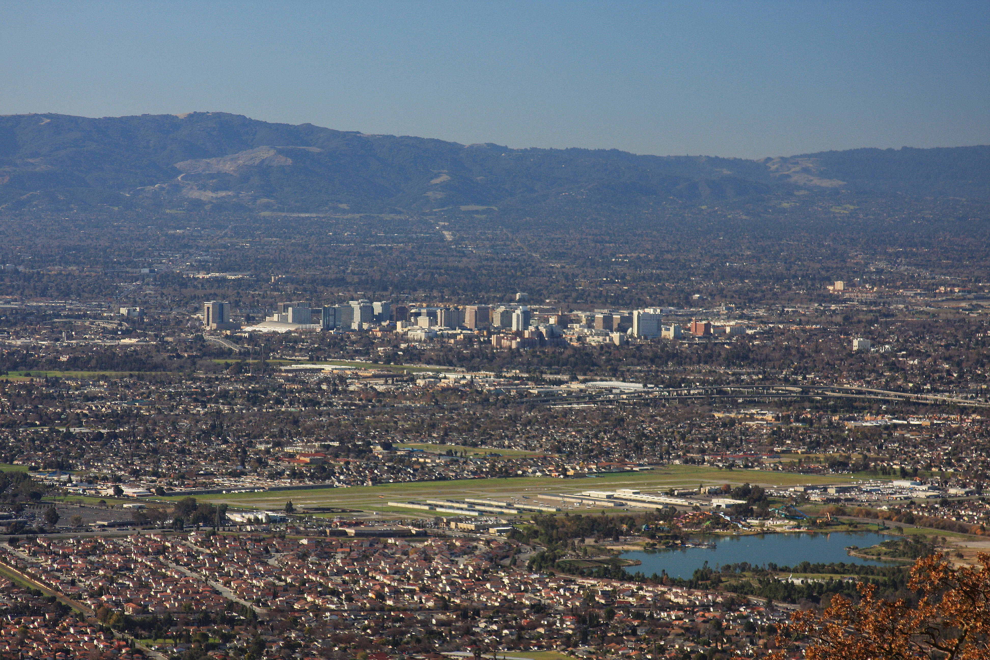 A very clear day!